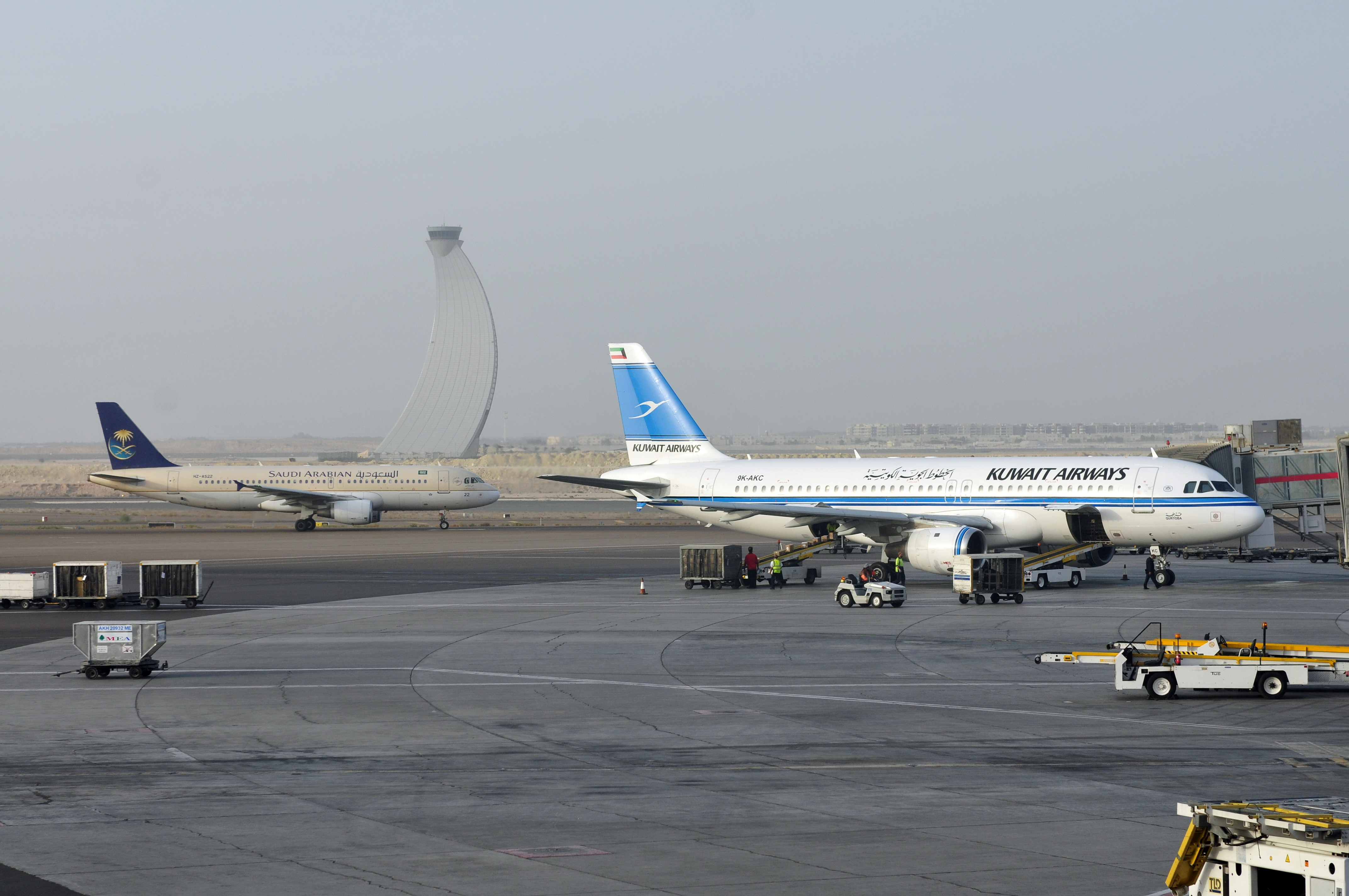 Airbus A320 9K-AKC of Kuwait Airways in Abu Dhabi International Airport